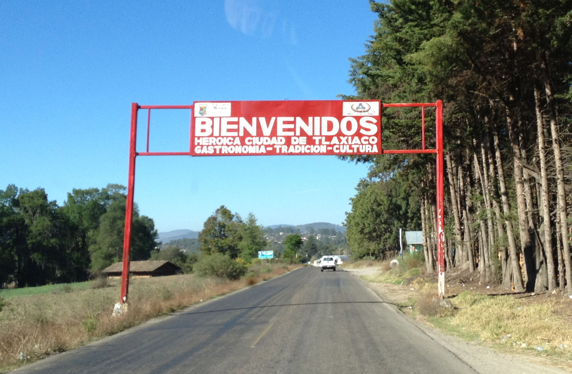 Entrance to the town of Tlaxiaco, Oaxaca